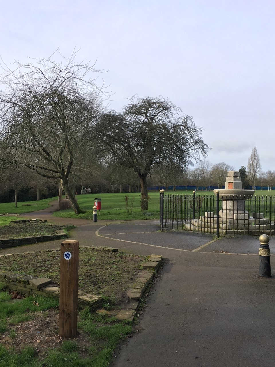 Image shows a Park in New Barnet called Victoria Recreation Ground. A fountain is in the foreground whilst a Green Space is behind it.